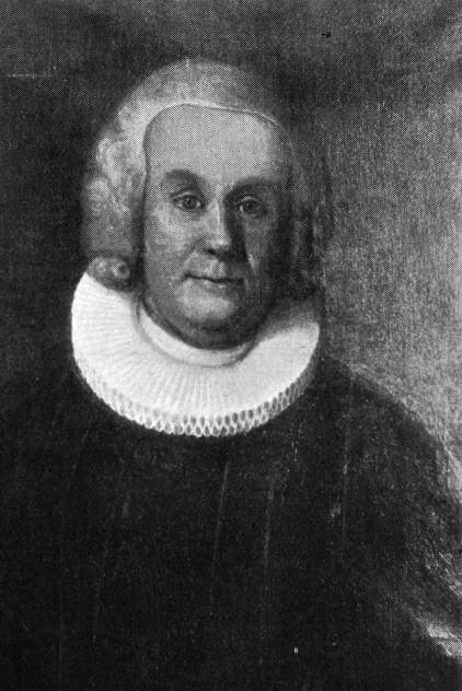 Painting (brystbilde) by Anders Bergius of Bishop Eiler Eilersen (Kongel) Hagerup (1718-1789). Year of making unknown. Located in Kristiansand domkirke (copi, by C. Dahl, in Bergen domkirke)